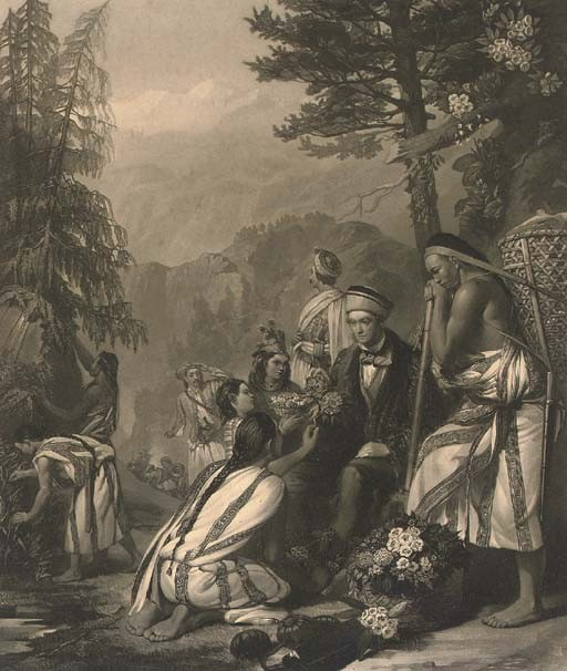 Mezzotint by William Walker after a painting by Frank Stone. Portrait of Dr Hooker in Sikkim with Lepcha collectors around him. Two Nepalese guards and their Gurkha sepoys are seated around a fire in the background. The scene is a pine forest at 9000 feet above sea level with Kanchenjunga in the background. The trunk of the tree on the right is covered in Rhododendron dalhousiae and other epiphytes. This mezzotint plate was produced at the cost fo 200 guineas for 100 proof impressions of which 60 were sold at 2 pounds and 2 shillings each.